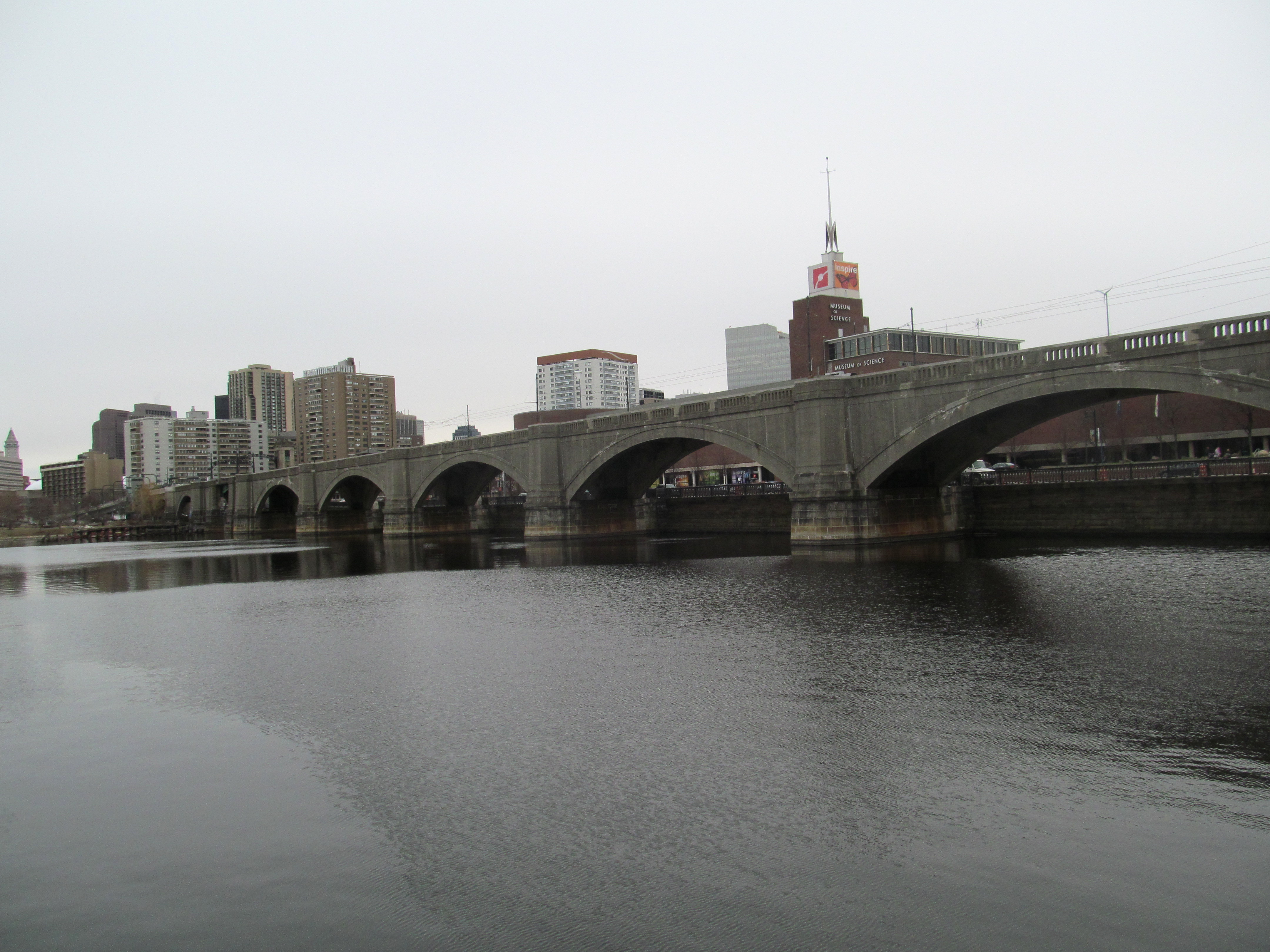 Lechmere viaduct as viewed from the East Cambridge end